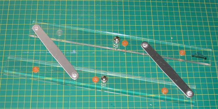 Parallel rule, drafting instrument used in navigation and cartography